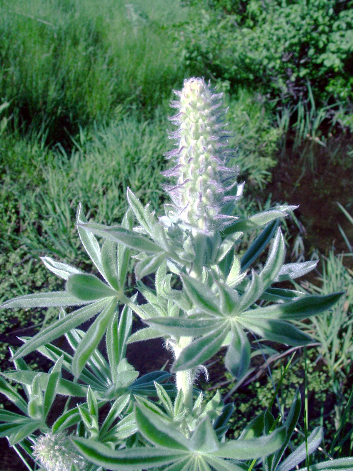 Lupinus leucophyllus. City of Rocks National Preserve, Idaho, USA.